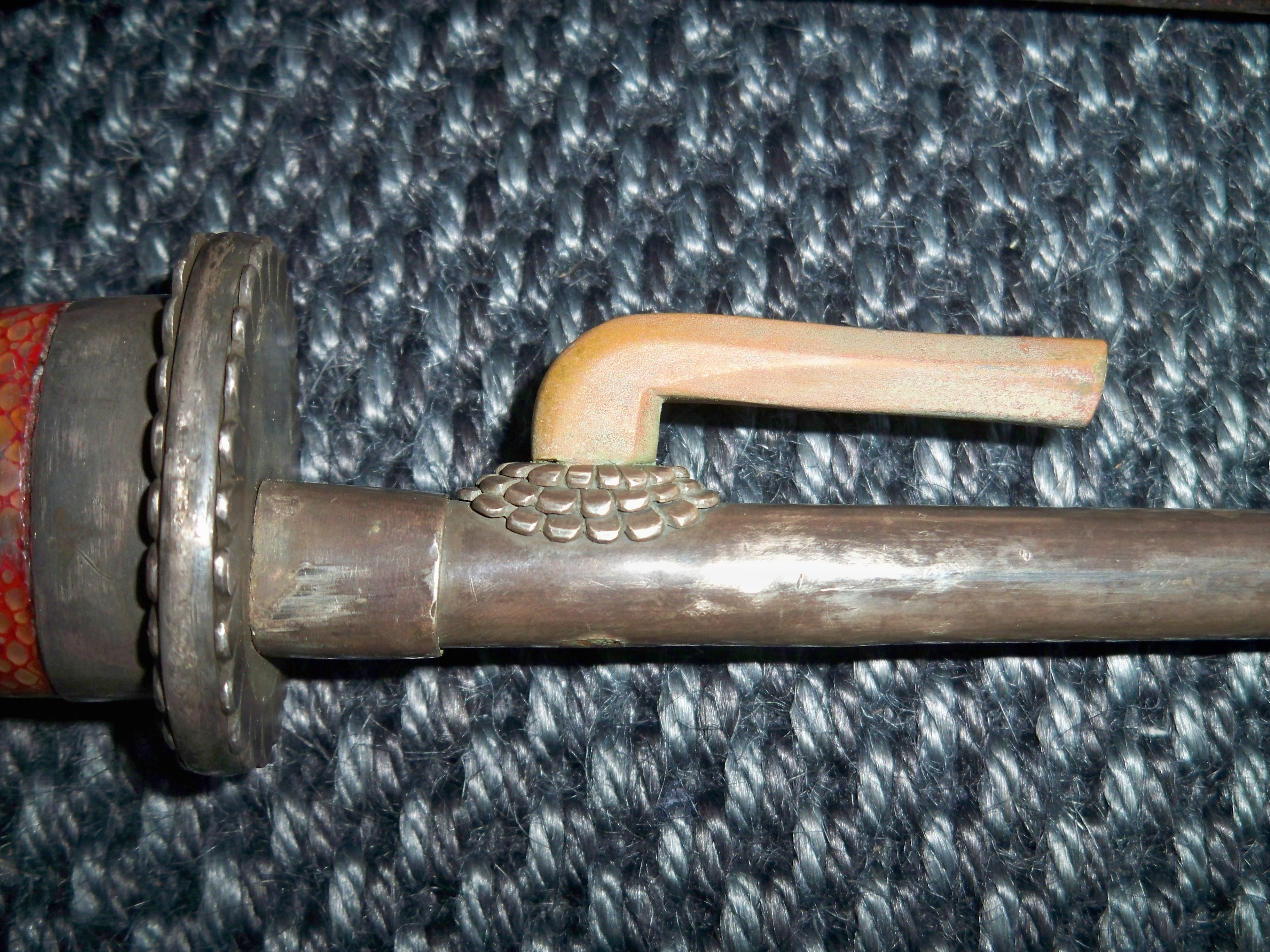 Close up picture of a jutte which has a hand guard tuska and decorative washers seppa on either side of the tsuba. The hook or kagi also has seppa were it attaches to the shaft boshin.